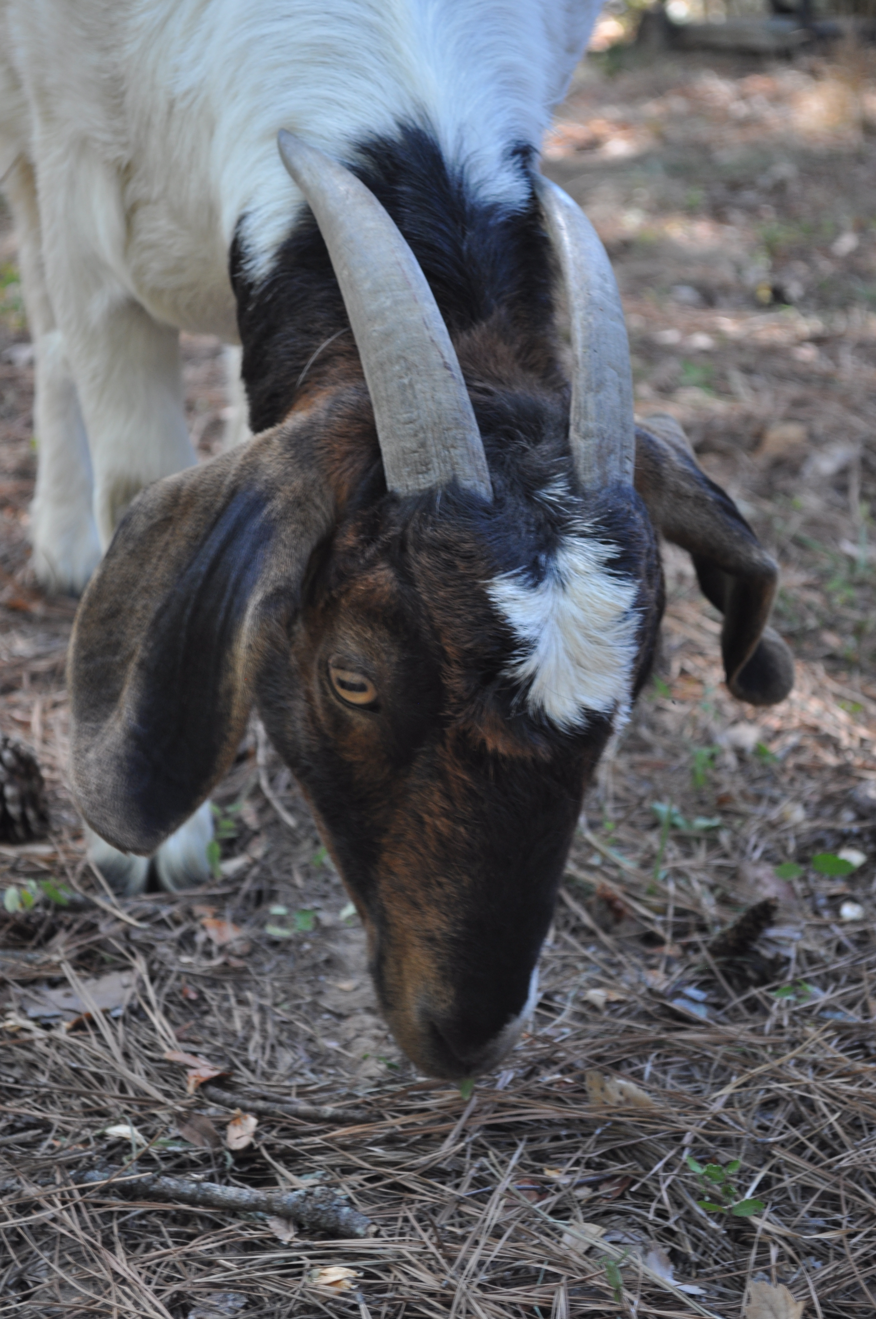 Goat Grazing, RentAGoat